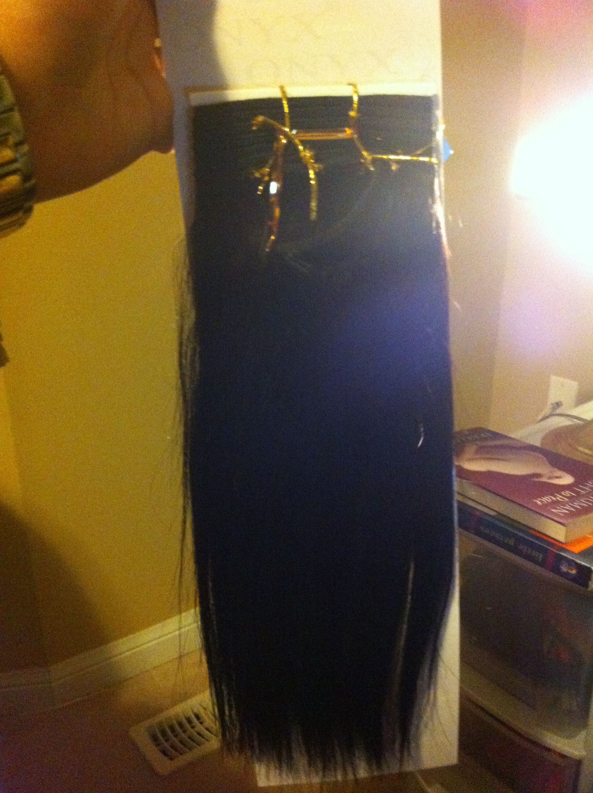 10-inch premium straight hair